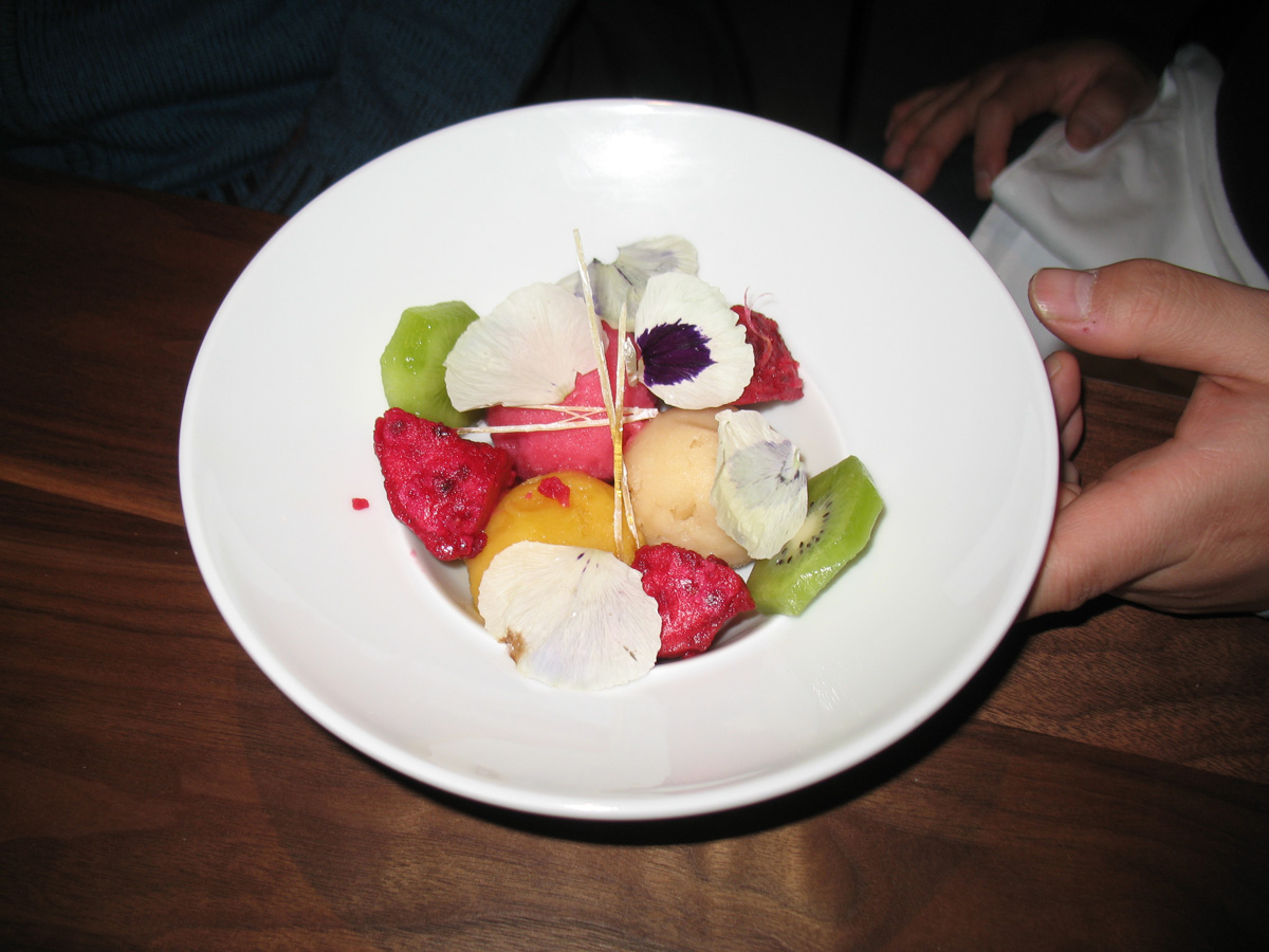 Mildred's Temple Kitchen, March 6, 2009